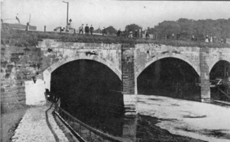 The original Barton aqueduct over the river Irwell in Greater Manchester taken shortly before its demolition in 1891. It was designed and constructed by John Gilbert and James Brindley for the Duke of Bridgewater